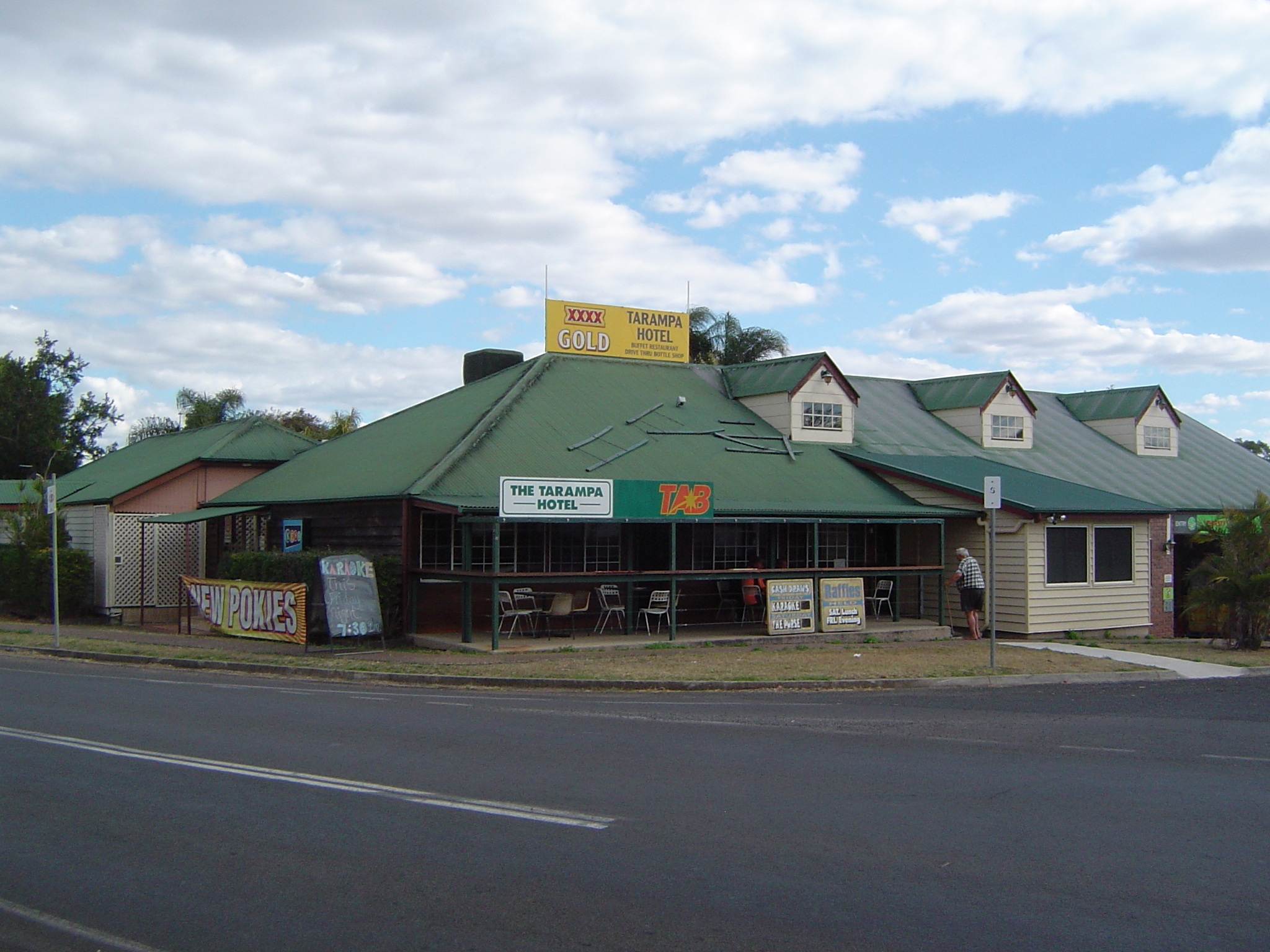 Photo of Tarampa Hotel at Tarampa, Somerset Region, Queensland, Australia.